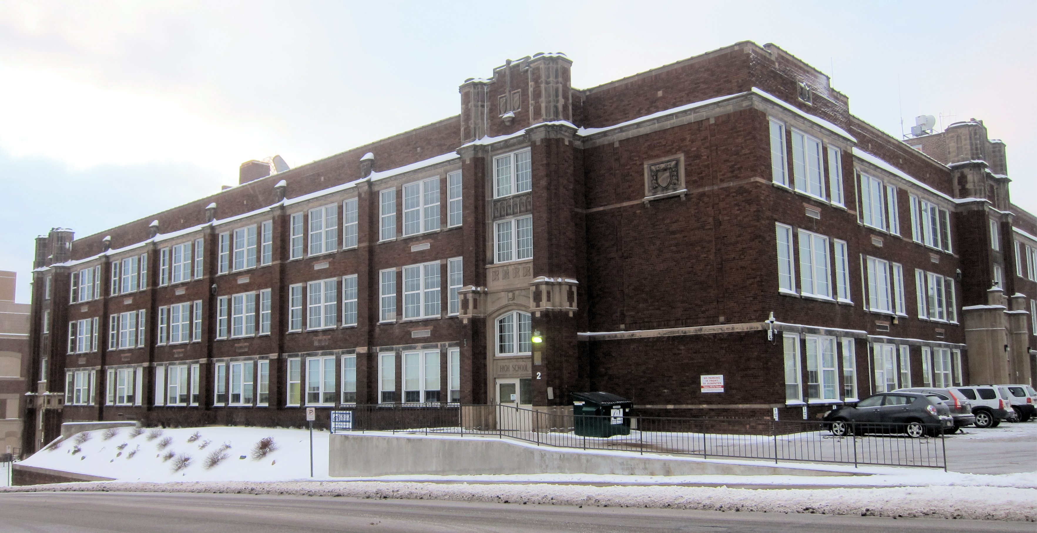 Eau Claire High School in Eau Claire, WI, listed on the National Register of Historic Places.